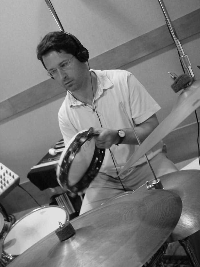 photo of Vinson Valega